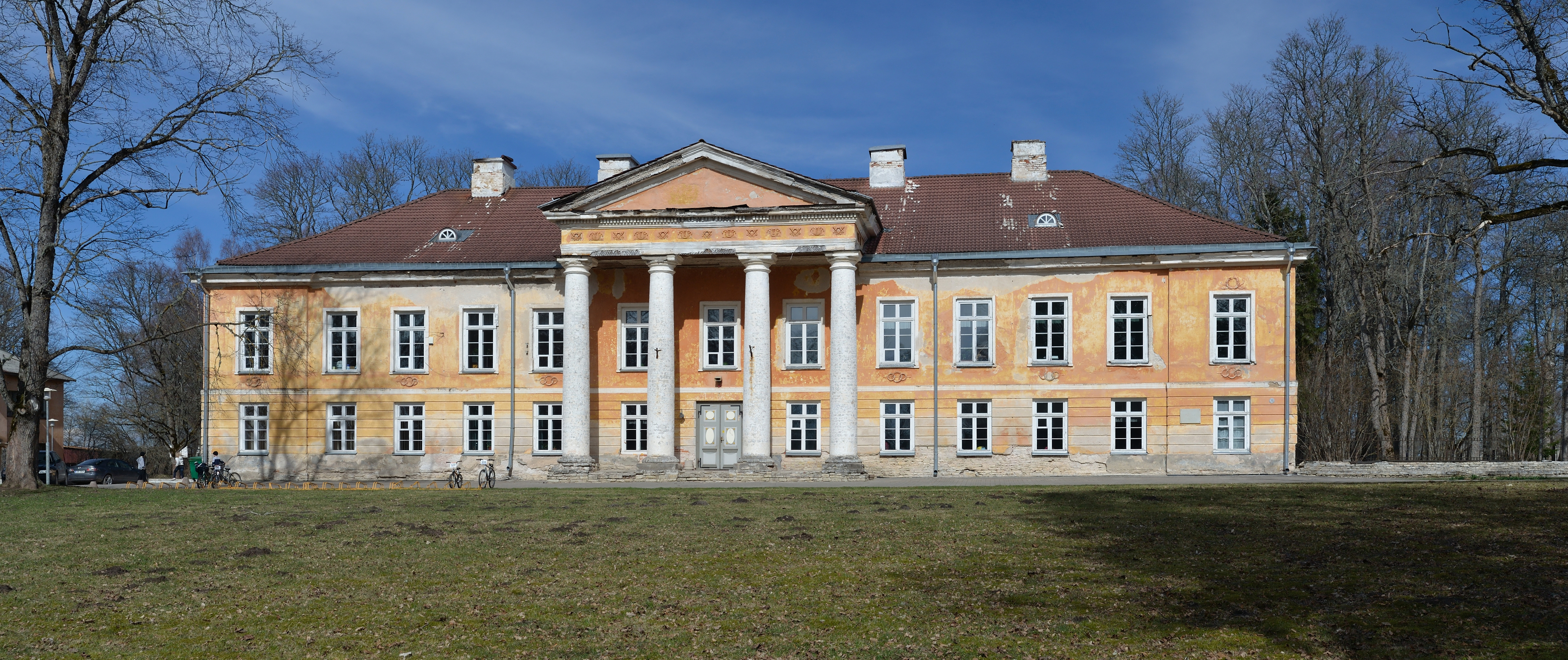 Aruküla manor main building